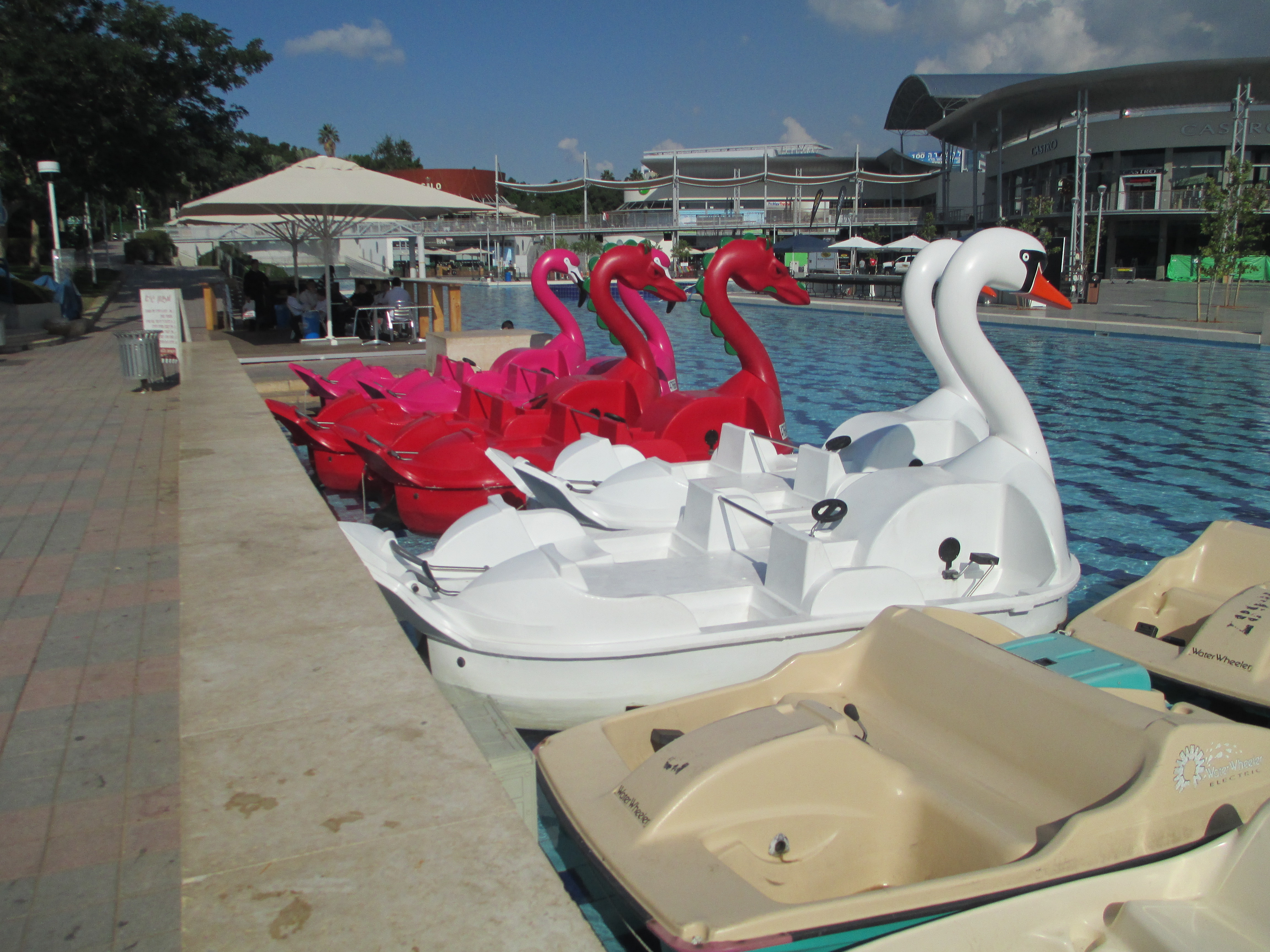 Boats in Peres Park